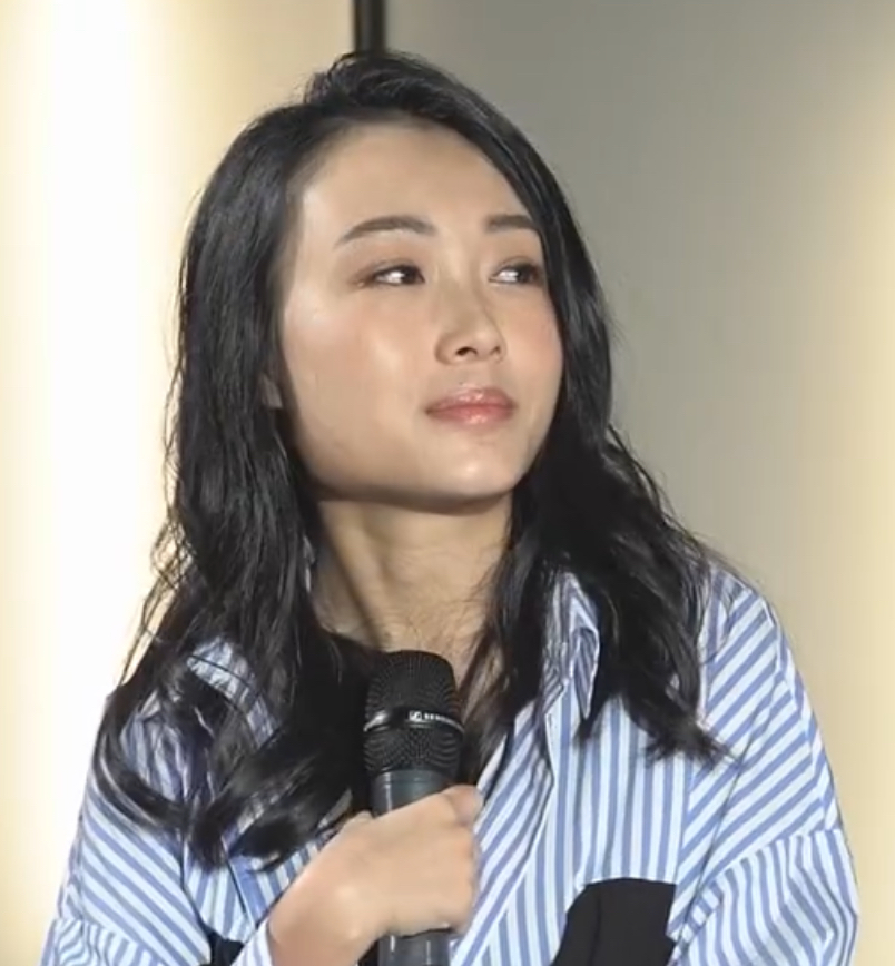 Vera Yuen Wing Han attend as a guest for 2020 Hong Kong pro-democracy primaries